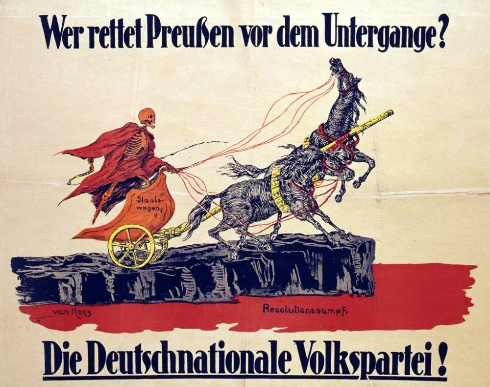 Gustav Adolf van Hees. Wer rettet Preußen vor dem Untergange? 1919. Poster in German elections campagn.